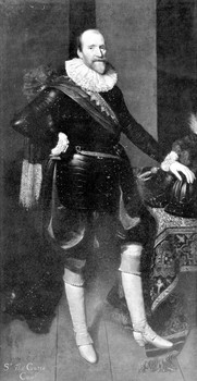 Portrait of Virginia Colonial Governor Thomas Gates